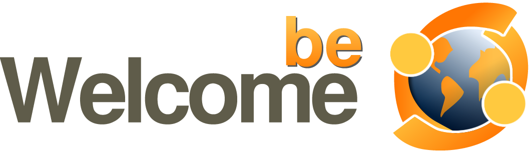 Logo of